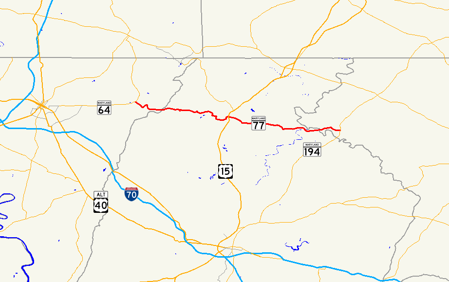 Map of Maryland Route 77